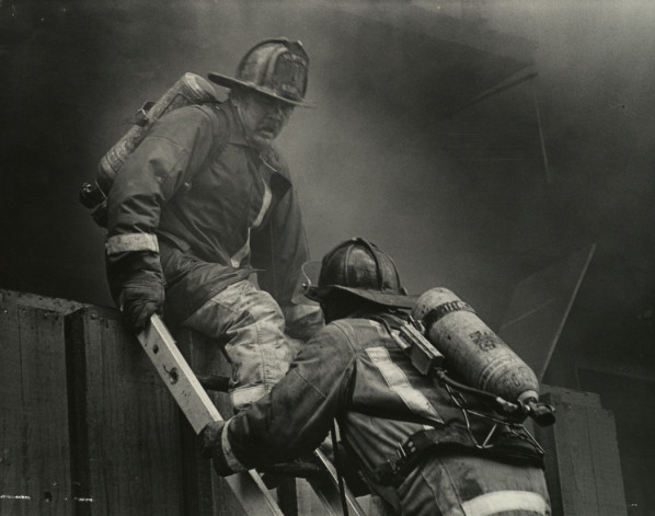 Two firefighters in a three-alarm building fire at Voss & Bergoyne District 69 (Houston, Texas) in 1986.